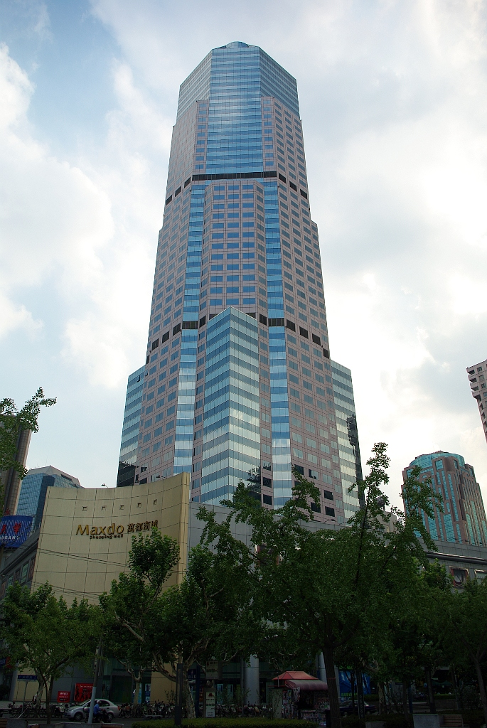 Maxdo building in Shanghai, China